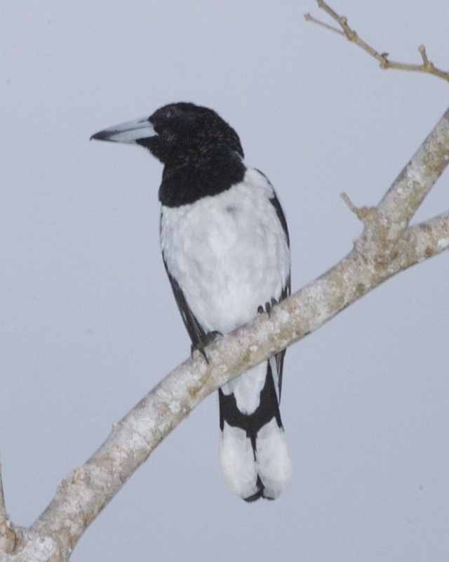 Hooded Butcherbird, Cracticus cassicus, perched on a branch in Biak, Papua, Indonesia. Taken on 15th January 2008 by Lip Kee.